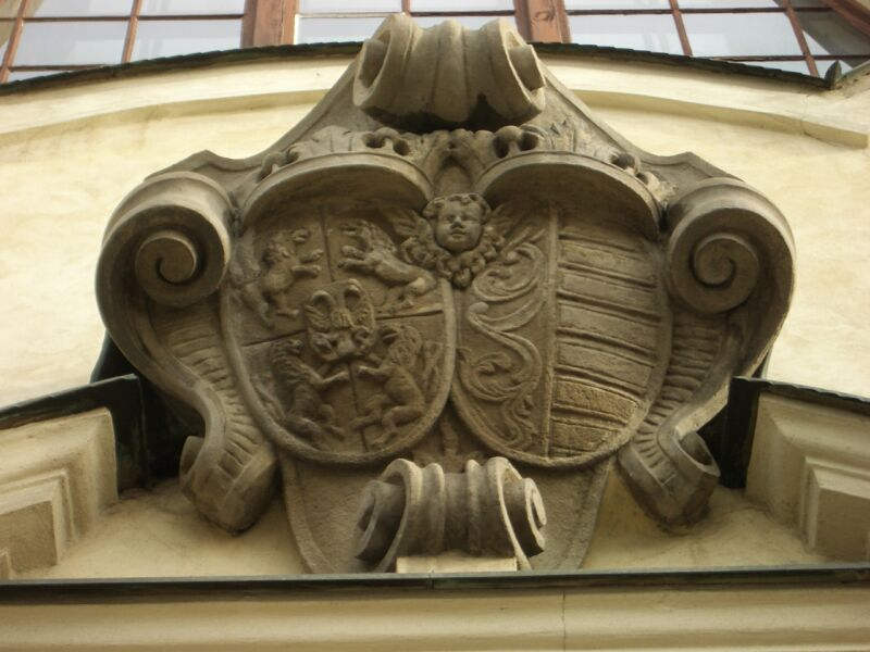 Two coat of arms in stone of Margarete Valdštejn-Černín, the founder of the small baroque church St. Mary in Prague, on the front of this church. Today, the church belongs to the Order of Elisabeth in Prague (Na Slupi 6).